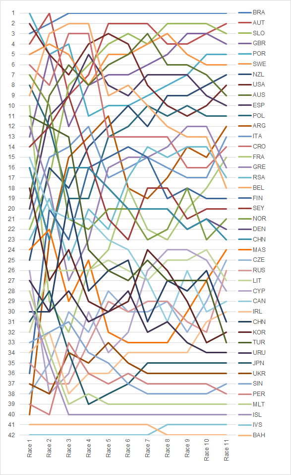 2004 LASER Positions during the serie